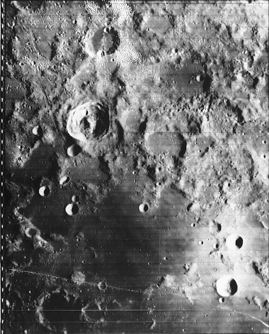 Montes Taurus - top part of the image